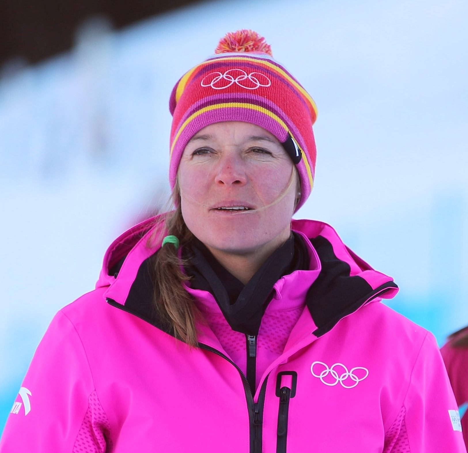 Mascot Ceremony of Alpine Skiing – Women's Giant Slalom at the 2020 Winter Youth Olympics in Lausanne on 12 January 2020.